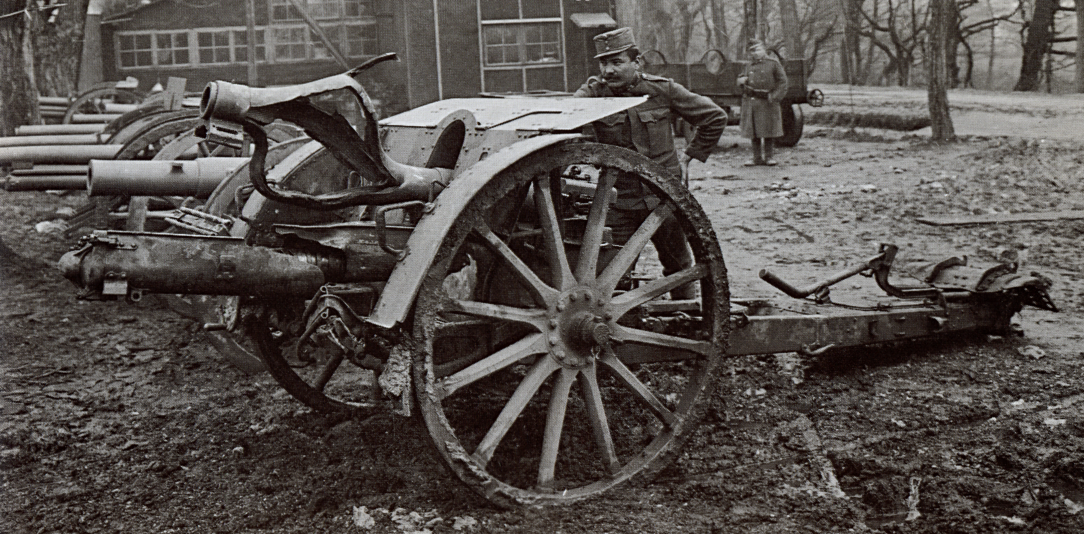 Austrian-Hungarian 10 cm M. 14 Feldhaubitze with an burst barrel during World War I.